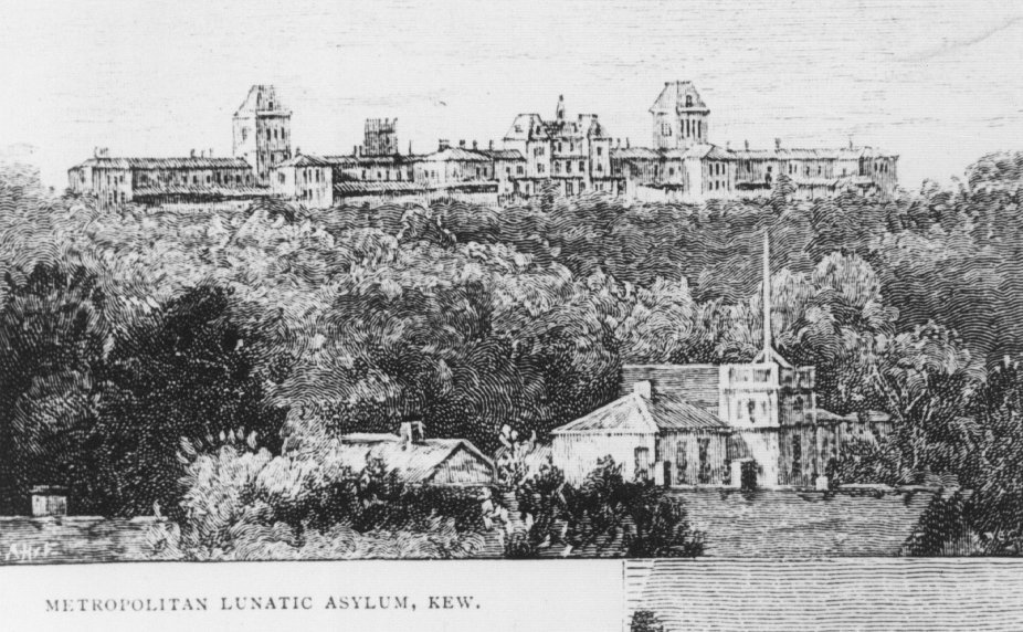 Engraving of the Metropolitan Lunatic Asylum, Kew. Buildings of Yarra Bend Asylum are seen in the foreground